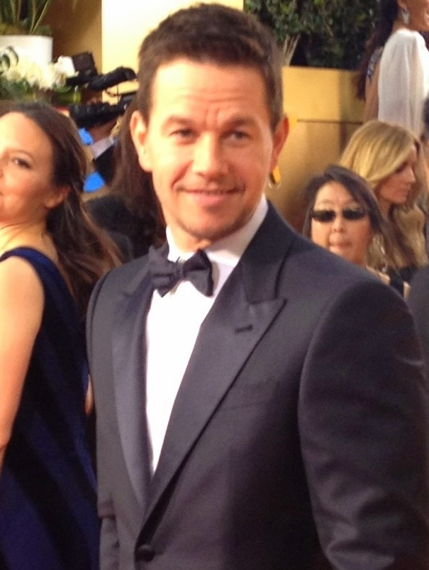 Mark Wahlberg at the 69th Annual Golden Globes Awards 2012.